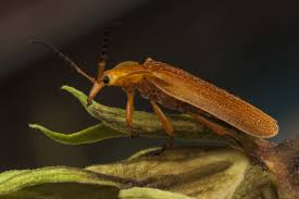 A Lycus loripes (Scorpionfly).